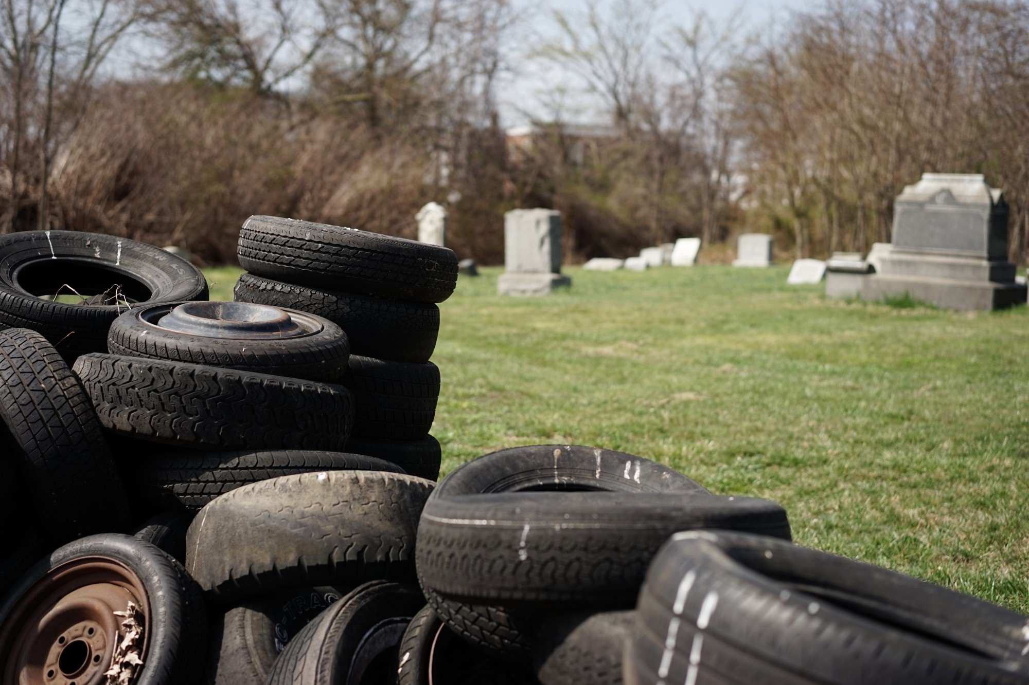 Taken at Mount Moriah Cemetery in Philadelphia, PA